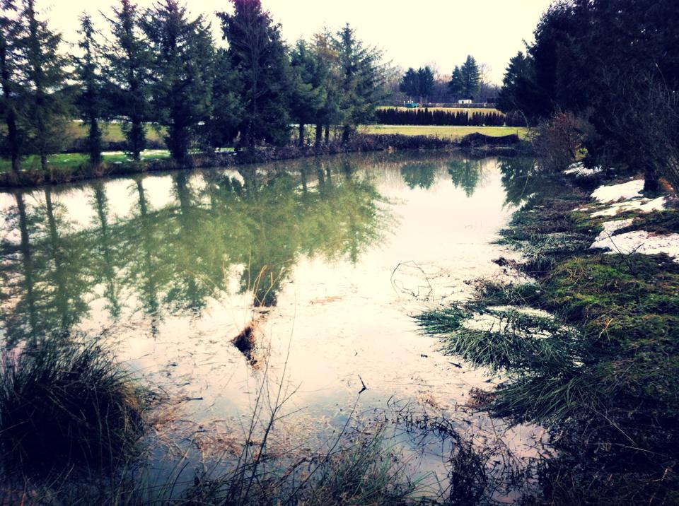 Jezero kraj Crkve u Kupincu